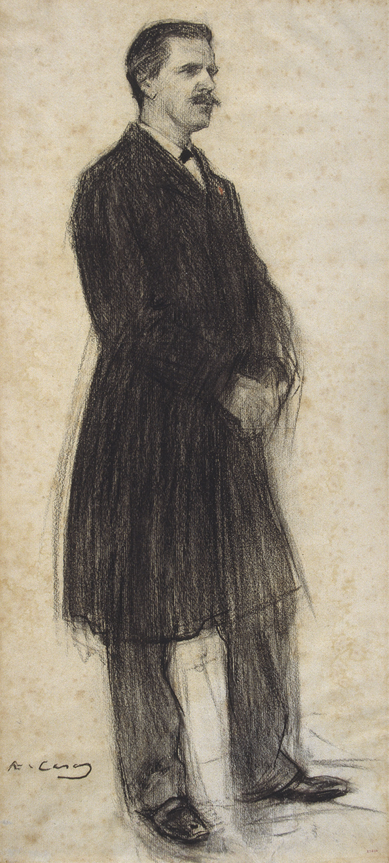 Portrait by Ramon Casas conserved at MNAC in Barcelona. Imagen 105